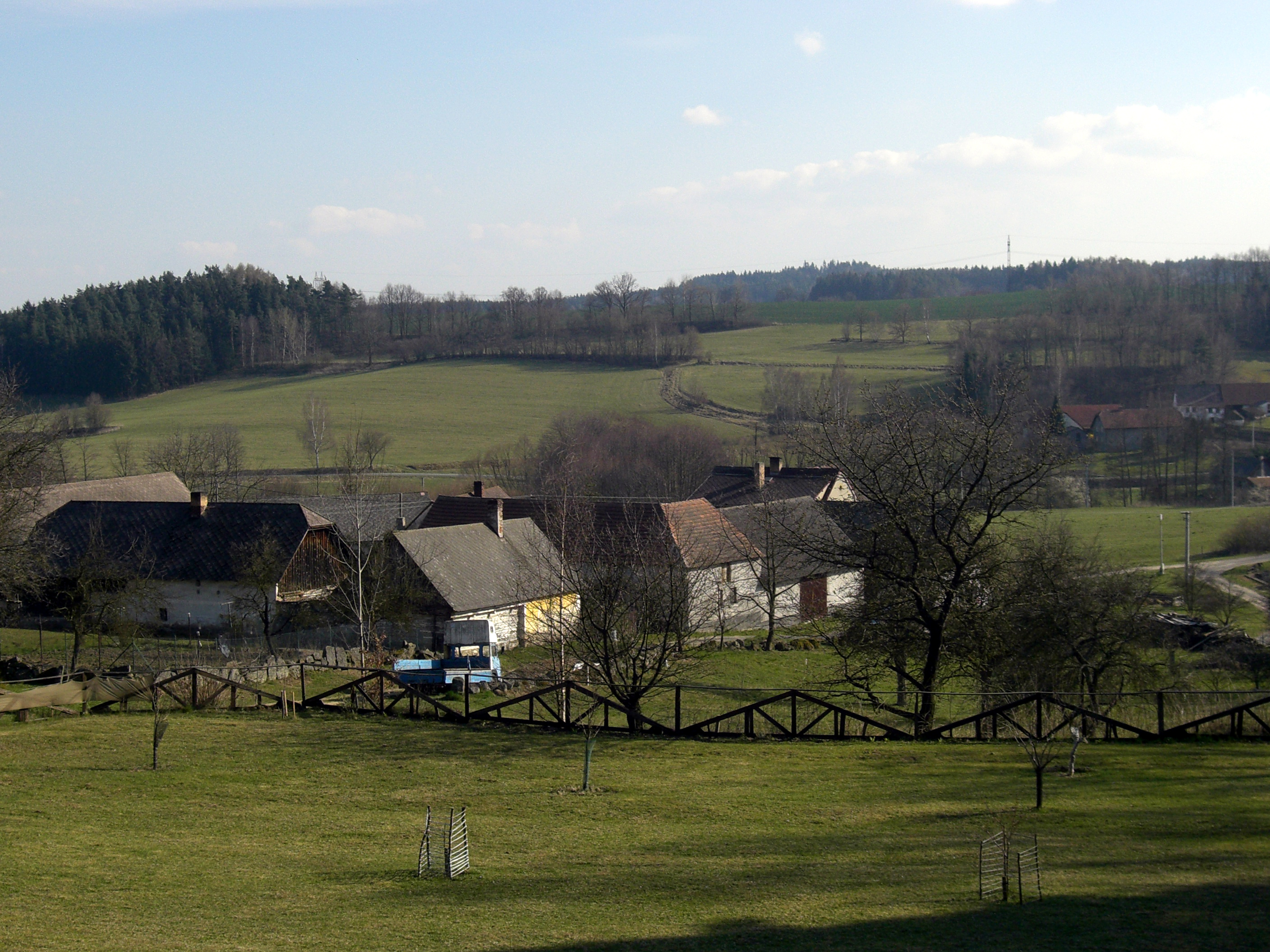 Hrazany village in the Písek district, Czech Republic